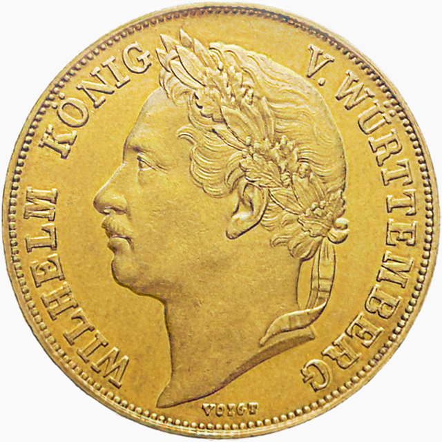 Gulden 1841, embossed on the occasion of the 25th government anniversary of William I, King of Württemberg (1816-1864). Avers: King's head with a wreath of laurel and oak leaves. Parallel to this coinage there was also an edition in silver.